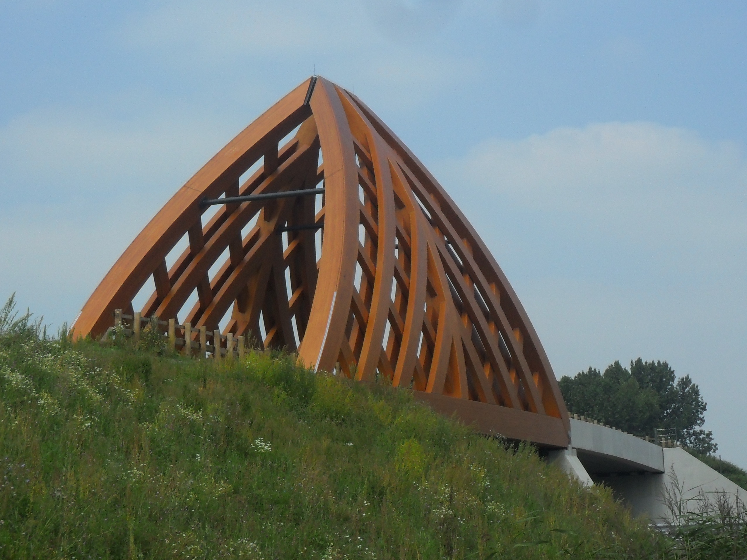 Wooden bridge in Sneek